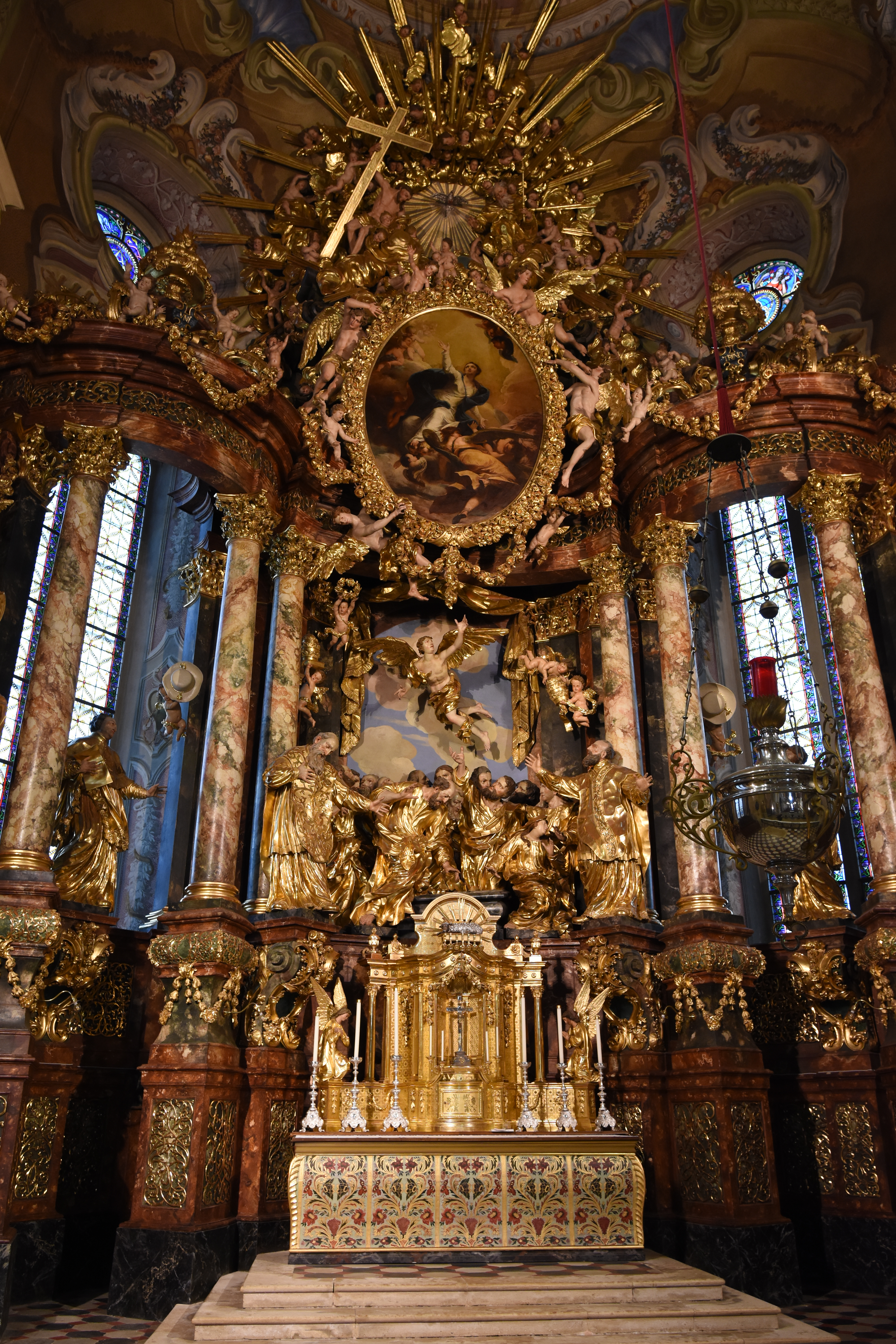 Stift Vorau - Interior